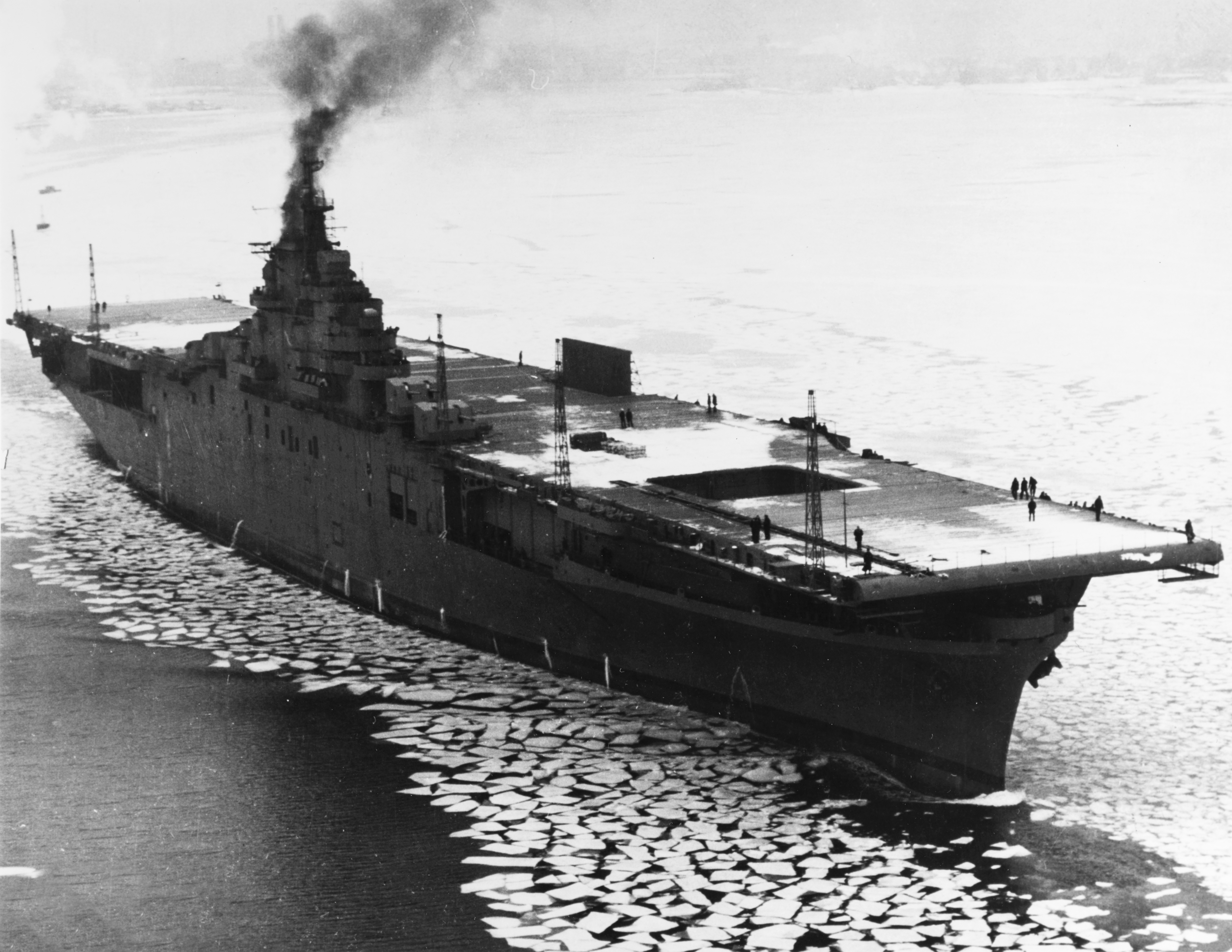 The U.S. Navy aircraft carrier USS Lexington (CV-16) steams through floating ice in Boston Harbor, Massachusetts (USA), on 17 February 1943, the day she first went into commission. Note the snow on her flight deck, and the open catapult track on the starboard side, forward.